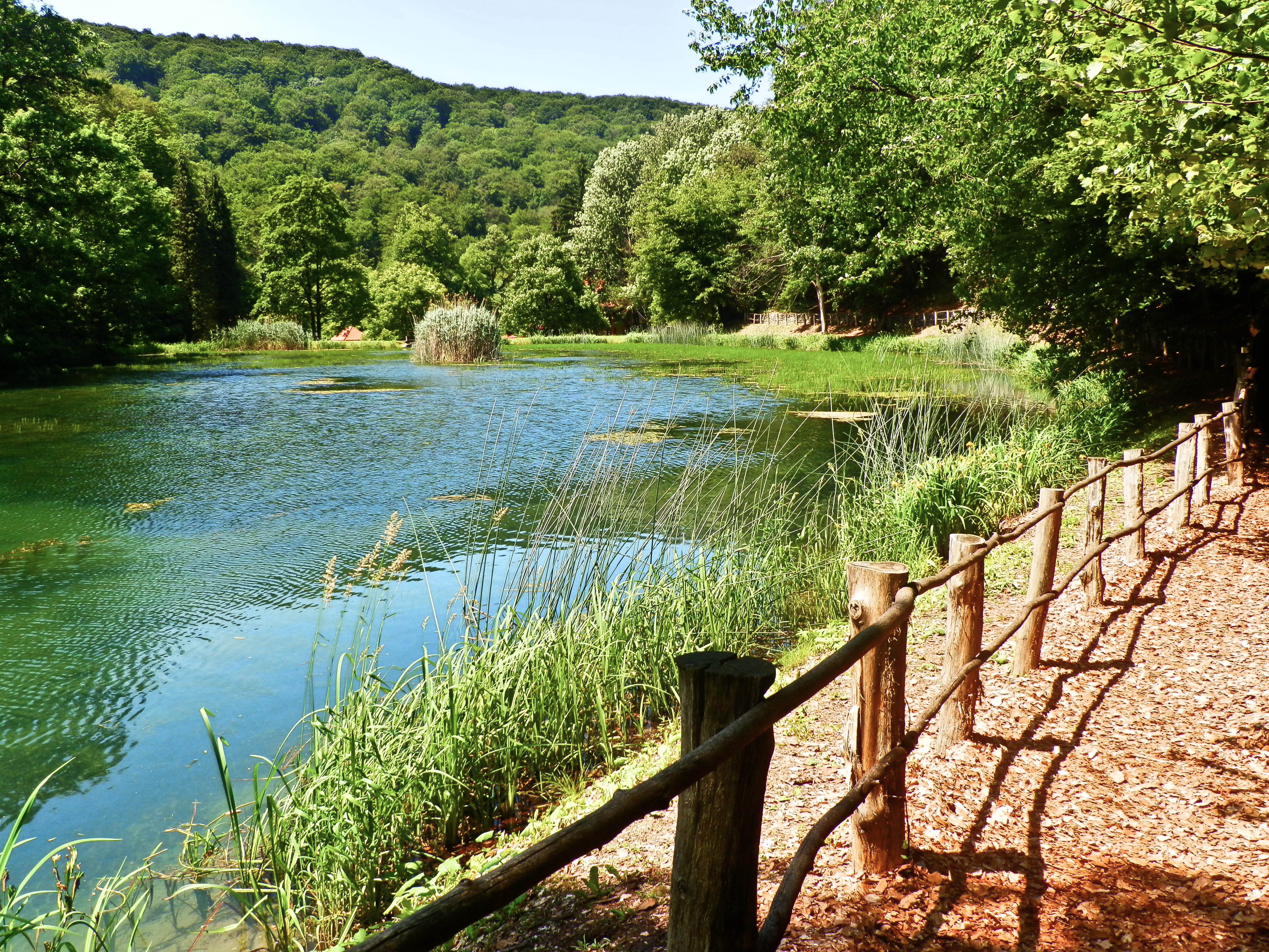 Prelijepo jezero